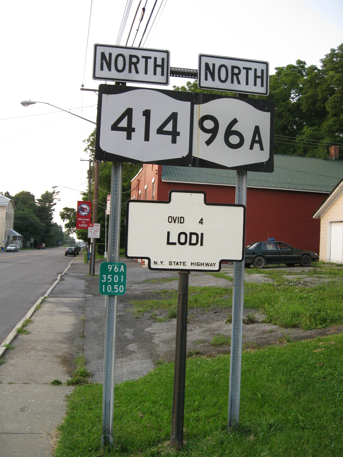 Reassurance markers along New York State Route 96A and New York State Route 414 northbound in Lodi. Below the markers is an old "N.Y. State Highway" marker, likely installed sometime in the early 20th century.